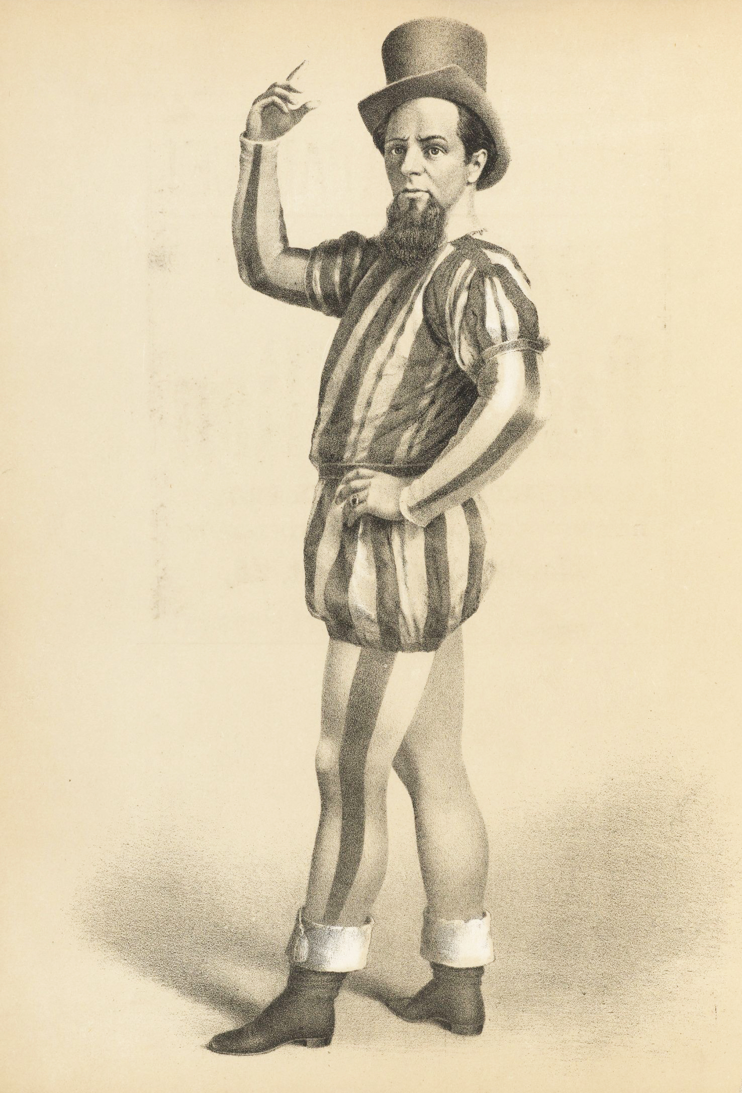 Portrait of entertainer Dan Rice (1823-1900) from a collection of play bills, &c. relating to the circus in New York City. Collected and arranged by C.C. Moreau, 1894. TS 944.22, Harvard Theatre Collection, Houghton Library, Harvard University